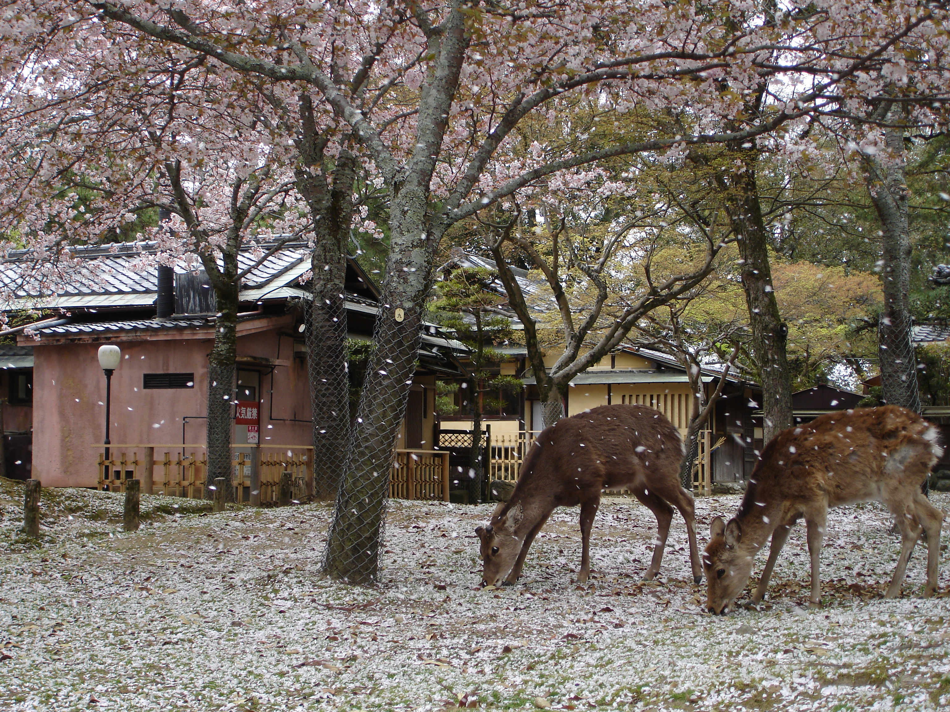 Cherry blossom in Nara